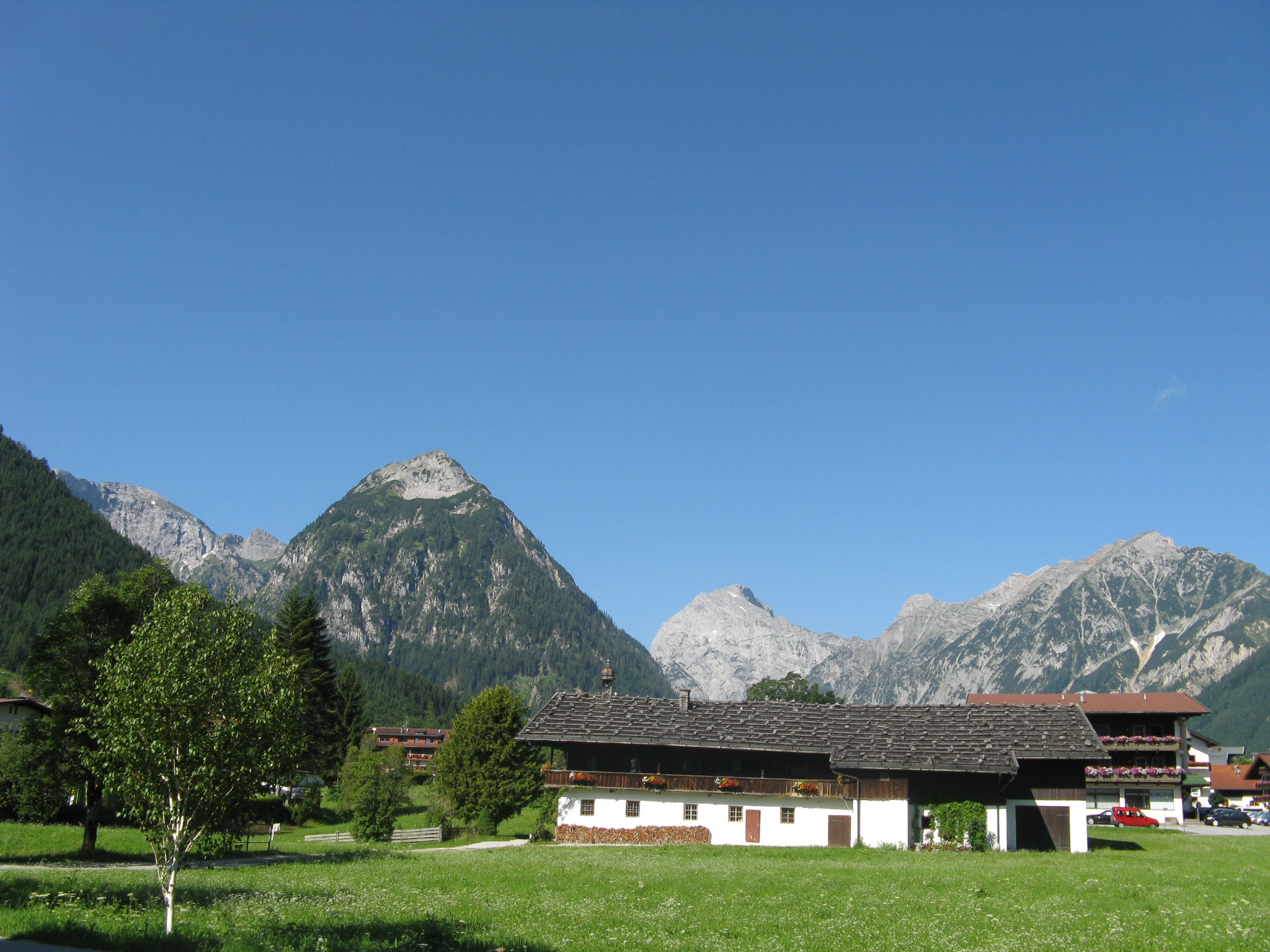 Fisherman's House, 15th century, Pertisau/Achensee, Tyrol/Austria